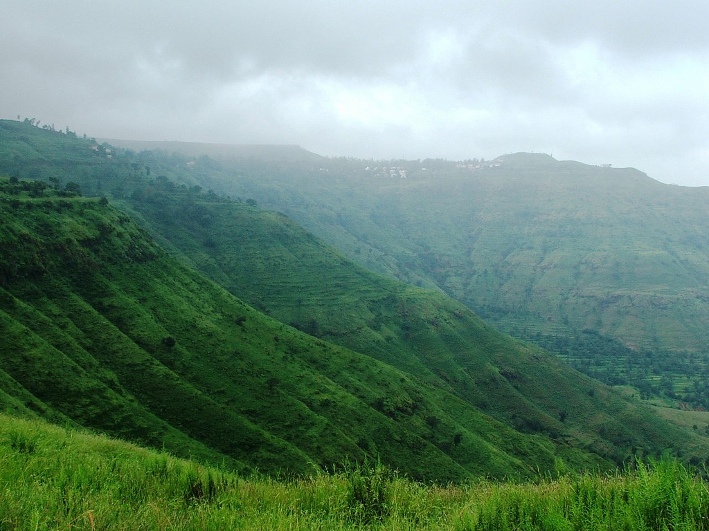 Panchghani Hills of Western Ghats